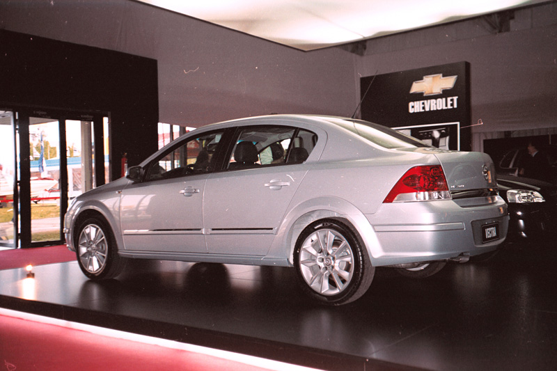 Chevrolet Vectra Sedan (Opel Astra H Sedan in other markets) at the 2006 Montevideo Motor Show.